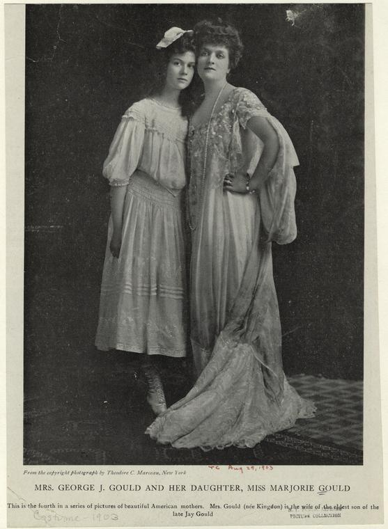 Edith M. Kingdon Gould and her daughter, Marjorie Gould in 1903. Image by Theodore C. Marceau (May 28, 1859 - June 22, 1922)